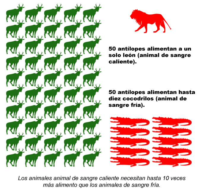 Dietary requirements of warm-blooded vs. cold-blooded predators